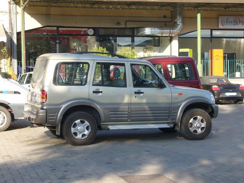 Mahindra Scorpio